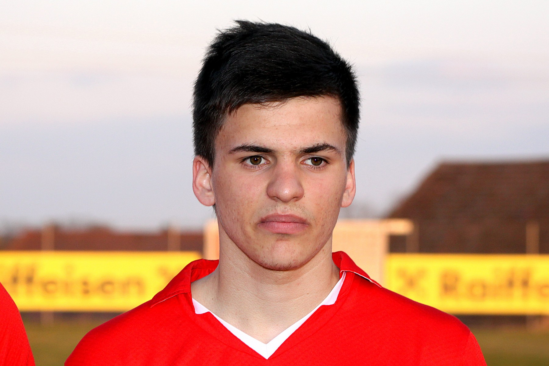 Thomas Murg (Grazer AK) - in the U-19-friendly match Austria (class 1993) vs. Slowakia (class 1993). Object location47° 44′ 53.87″ N, 16° 28′ 58.97″ E